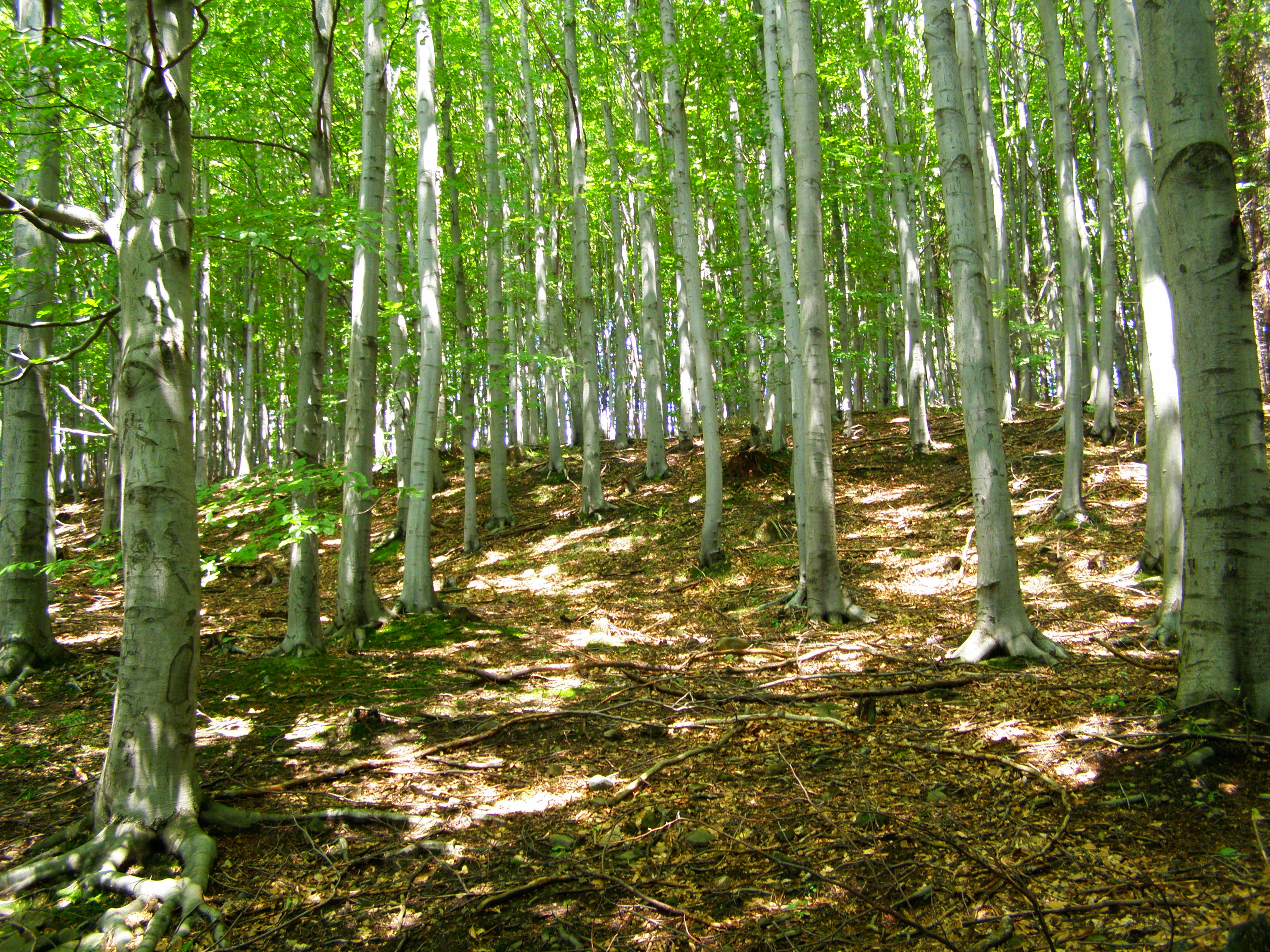 Beech forest in Sub-Beskidian Hills (CZE)